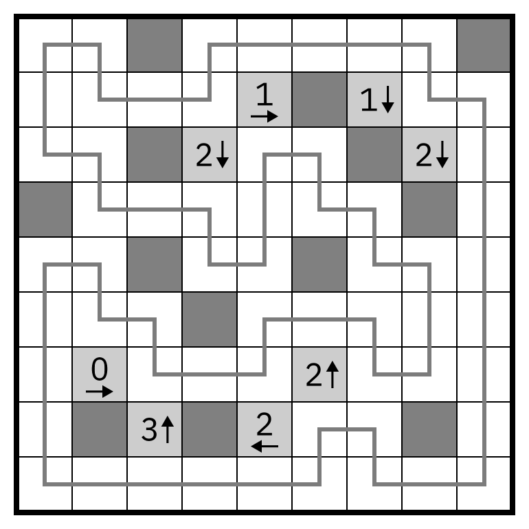 This is the solution to a 9x9 Yajilin puzzle.